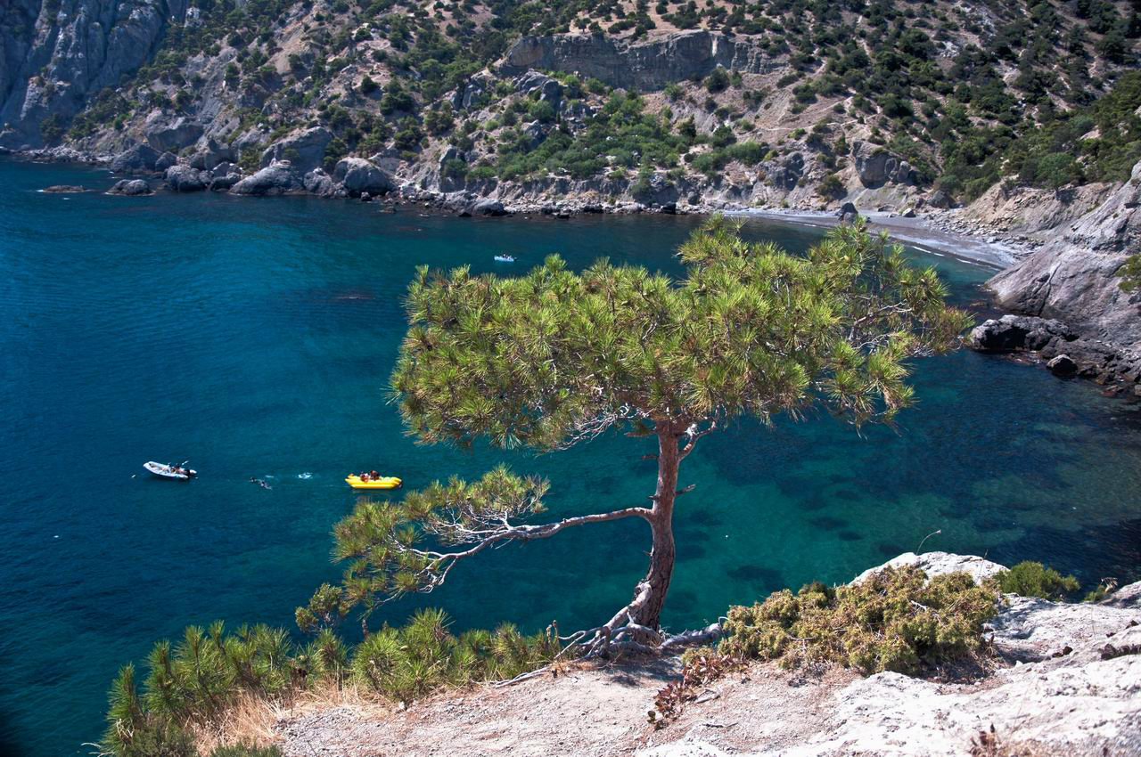 Golytsyn trail